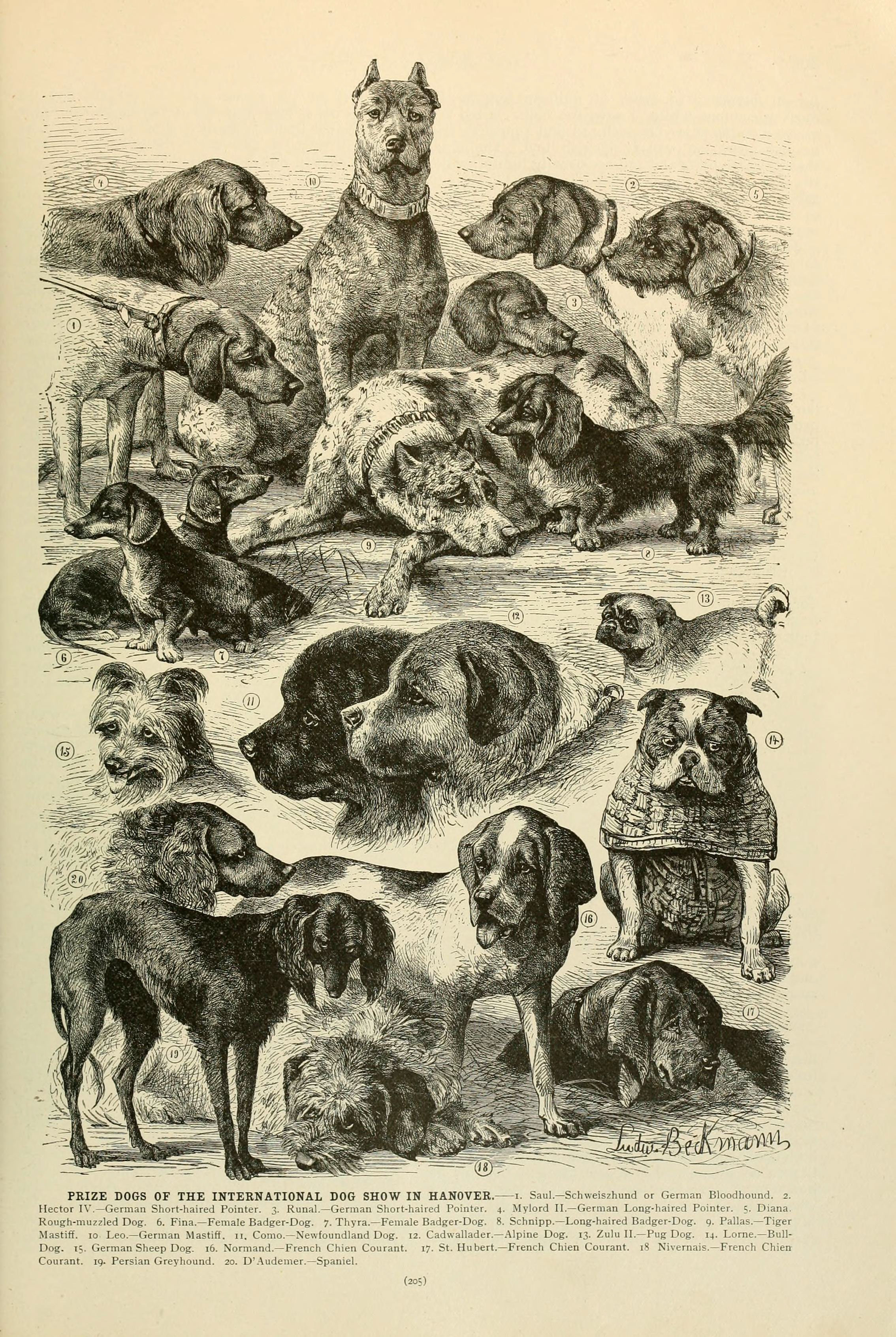 PRIZE DOGS OF THE INTERNATIONAL DOG SHOW IN HANOVER. 1. Saul.— Schweiszhund or German Bloodhound. 2. Hector IV.— German Short-haired Pointer. 3. Runal.— German Short-haired Pointer. 4. Mylord II.— German Long-haired Pointer. 5. Diana. Rough-muzzled Dog. 6. Fina.— Female Badger-Dog. 7. Thyra.— Female Badger-Dog. 8. Schnipp.— Long-haired Badger-Dog. 9. Pallas.— Tiger Mastiff. 10 Leo.— German Mastiff, n. Como.— Newfoundland Dog. 12. Cadwallader.— Alpine Dog. 13. Zulu II.— Pug Dog. 14. Lome.— Bull- Dog. 15. German Sheep Dog. 16. Normand.— French Chien Courant. 17. St. Hubert.— French Chien Courant. 18 Nivernais.— French Chien Courant. 19. Persian Greyhound. 20. D'Audemer.— Spaniel. (205)